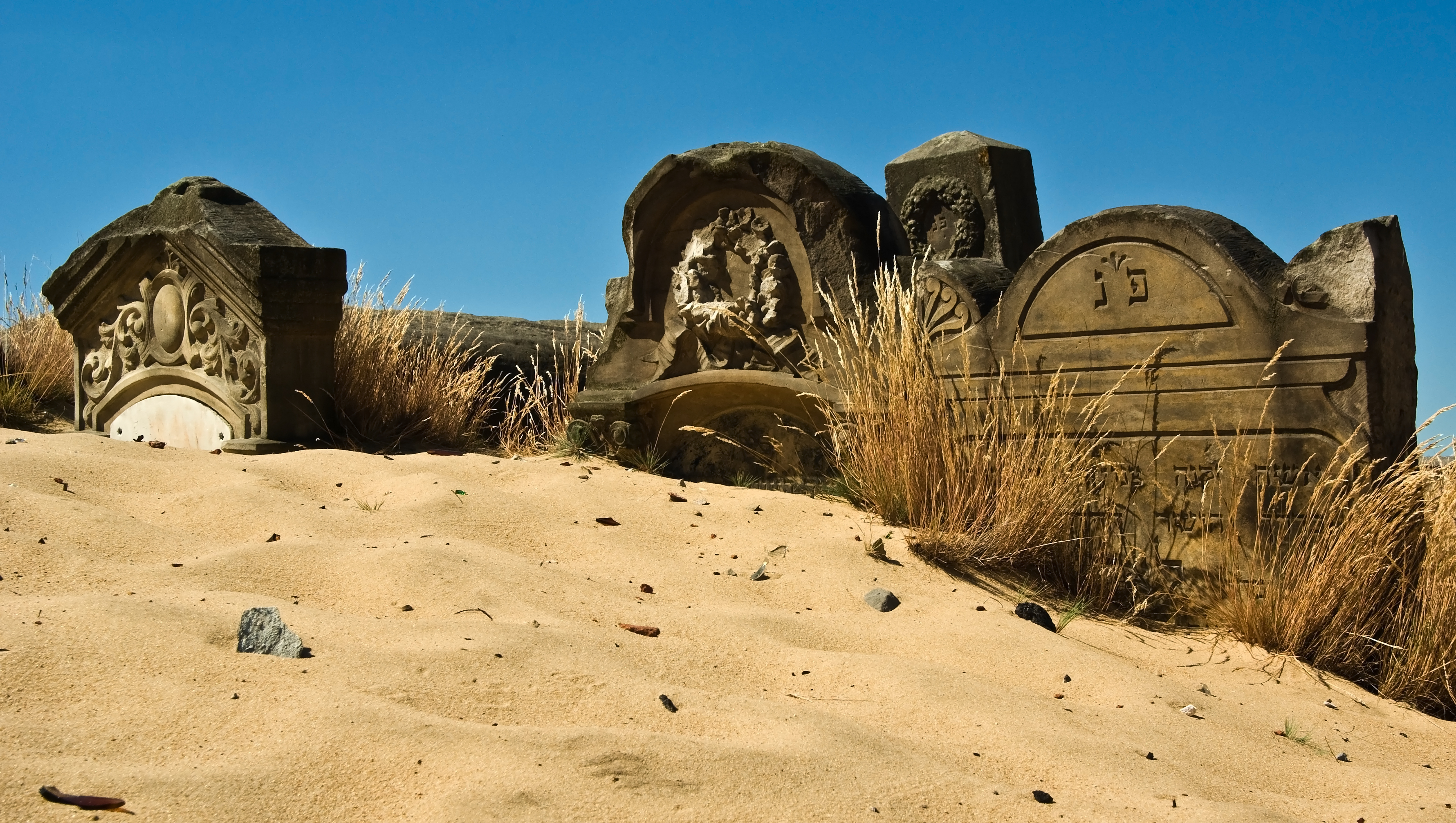 Jewish cemetery in Karczew - tombstones